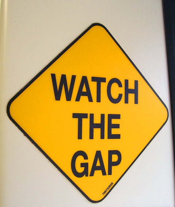 Photographed by Daniel Case 2006-12-12